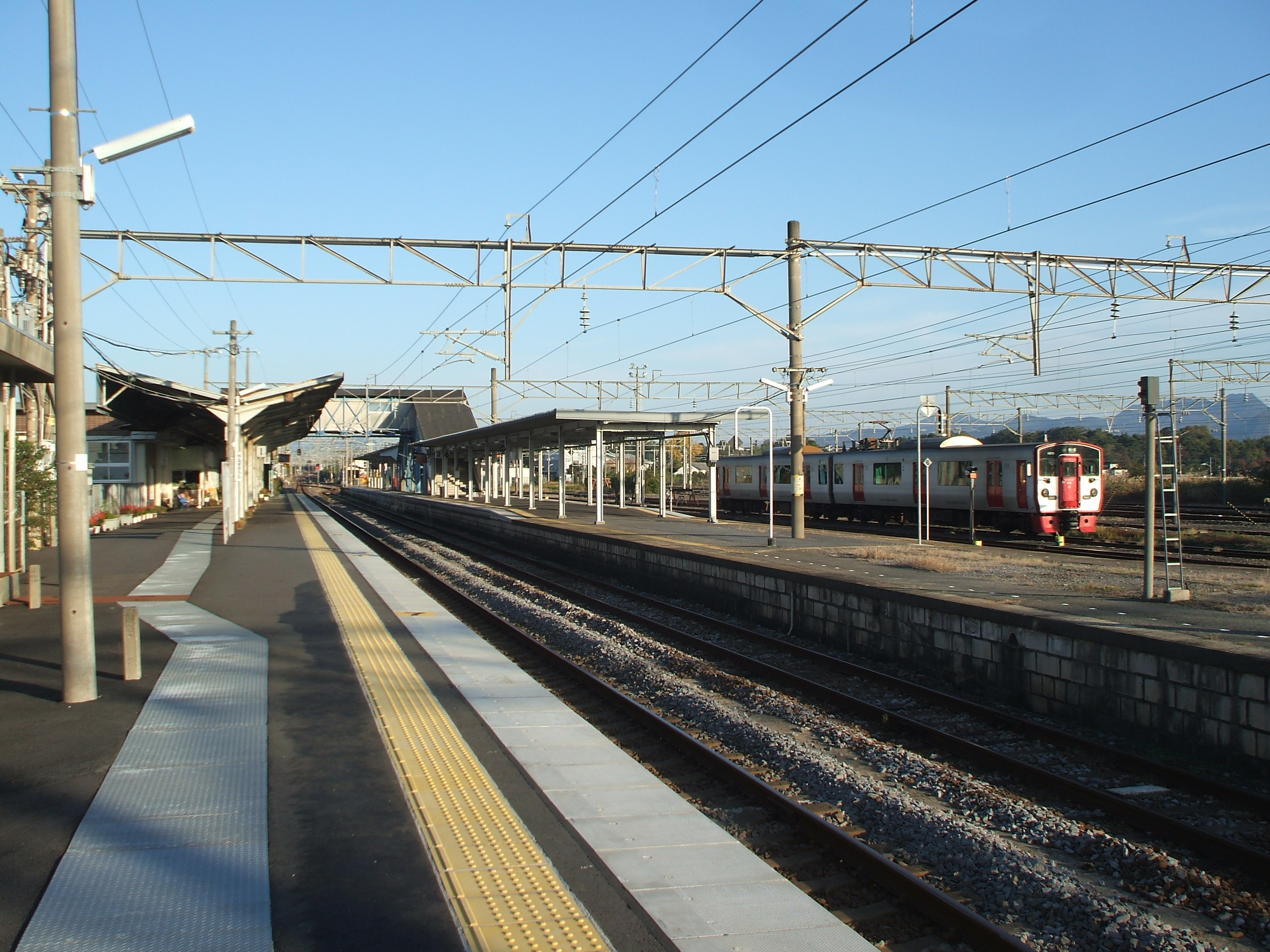 Yanagigaura Station on the JR Kyushu Nippo Main Line in Usa City, Oita Prefecture, Japan